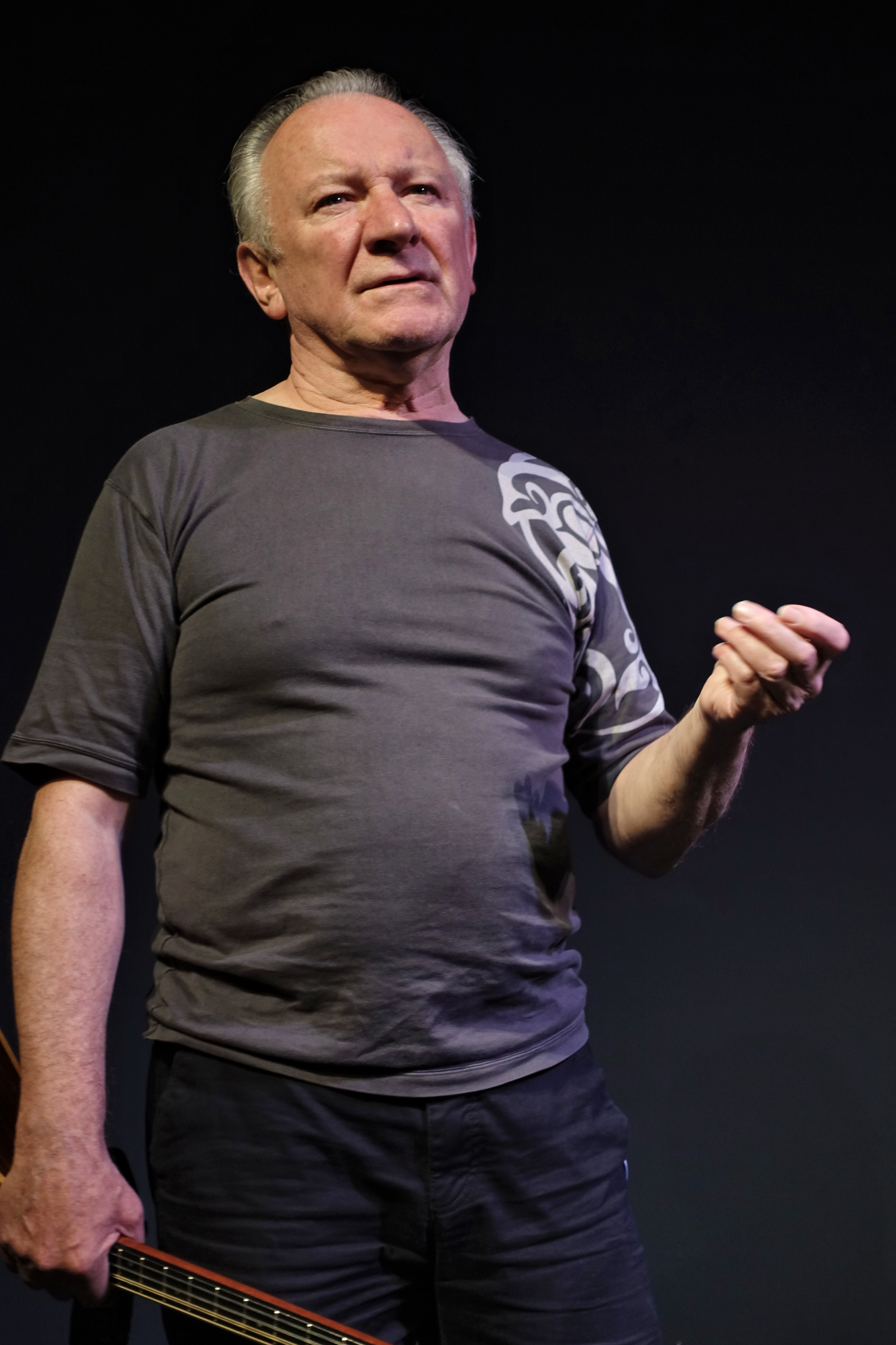 Dónal Lunny at the Craiceann Bodhrán Festival 2016, Inis Oirr